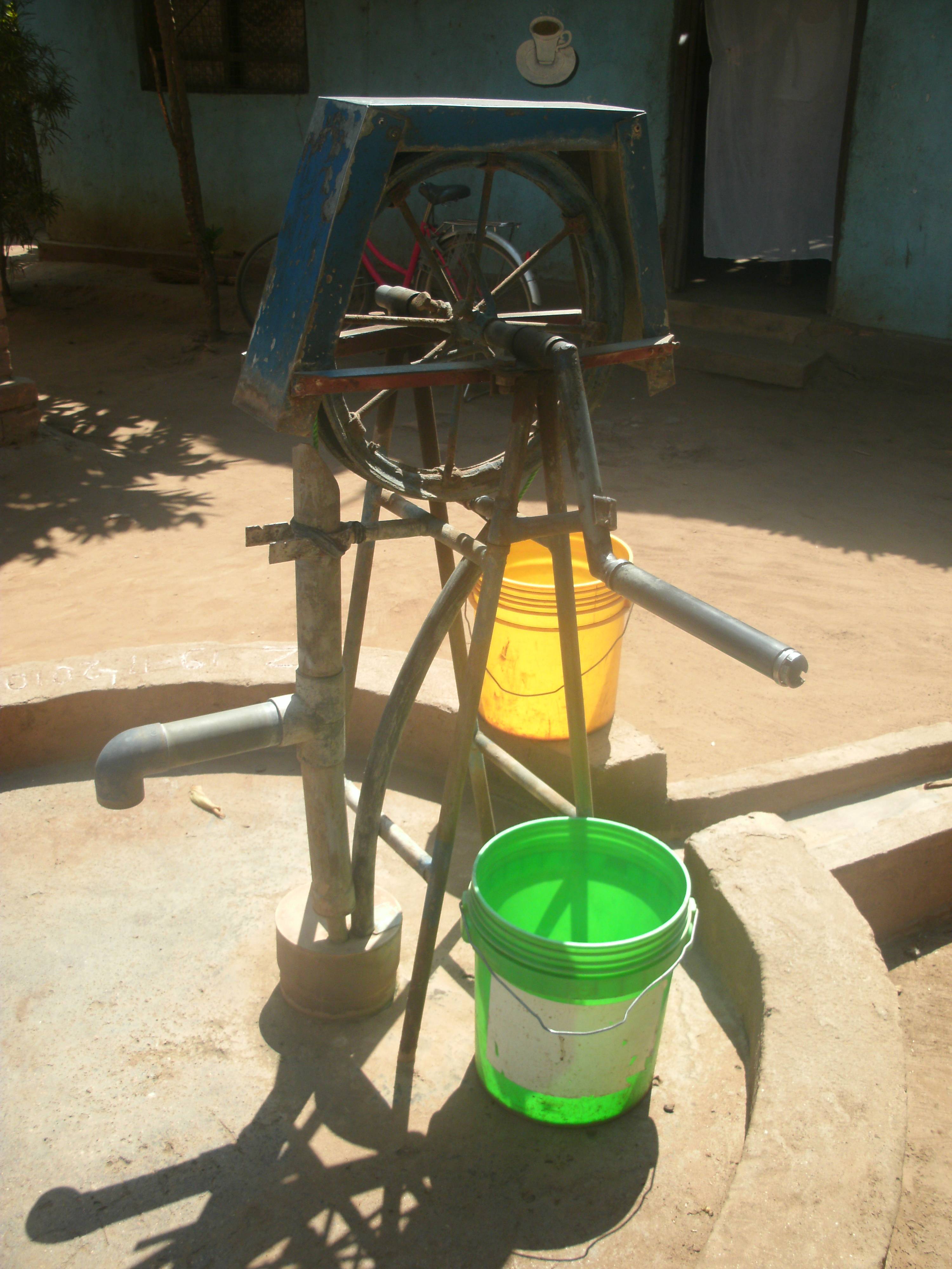 This is a photograph of a water pump built by MSABI in Ifakara, Tanzania.